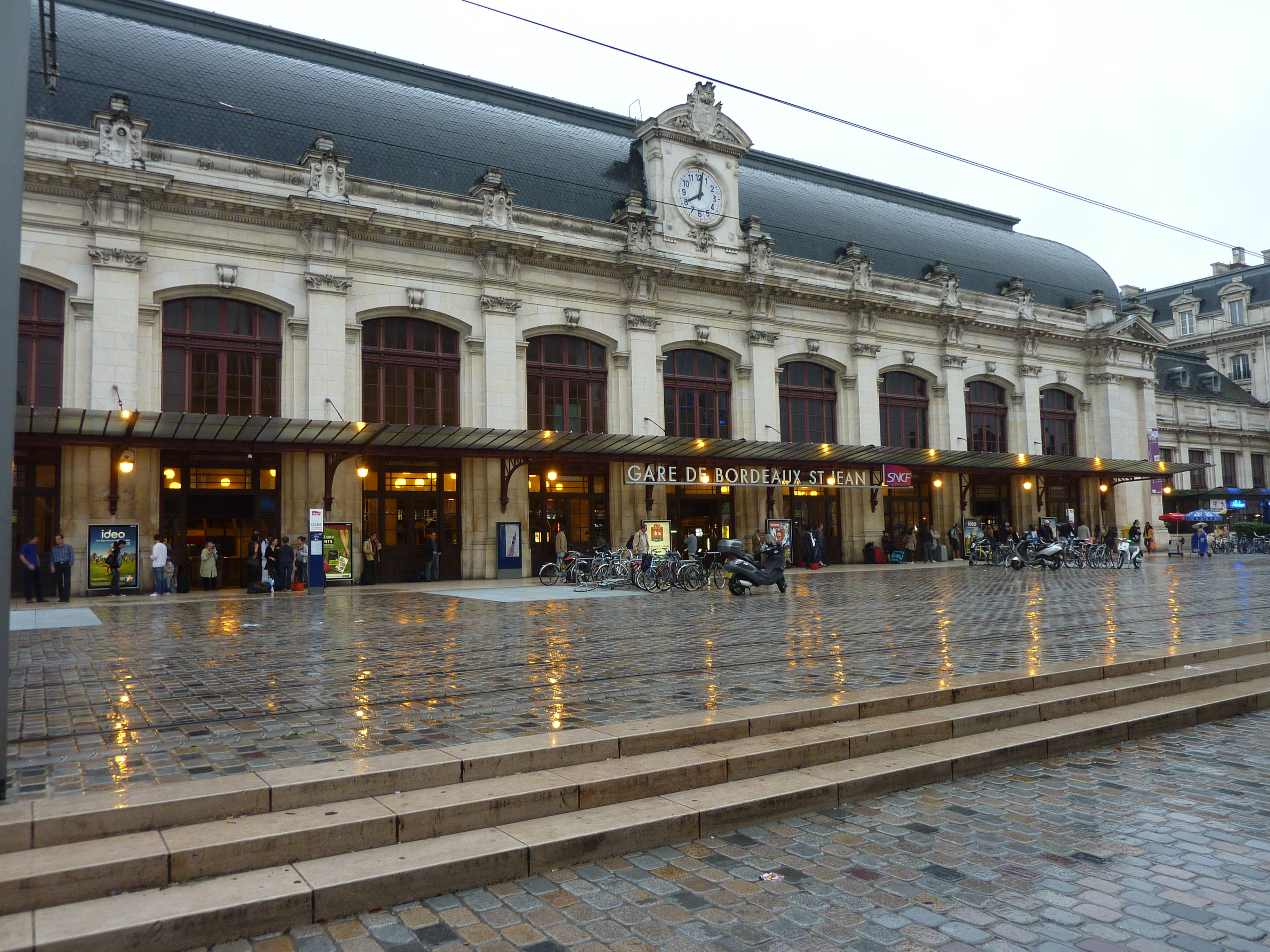 Railway station Bordeaux St Jean in France